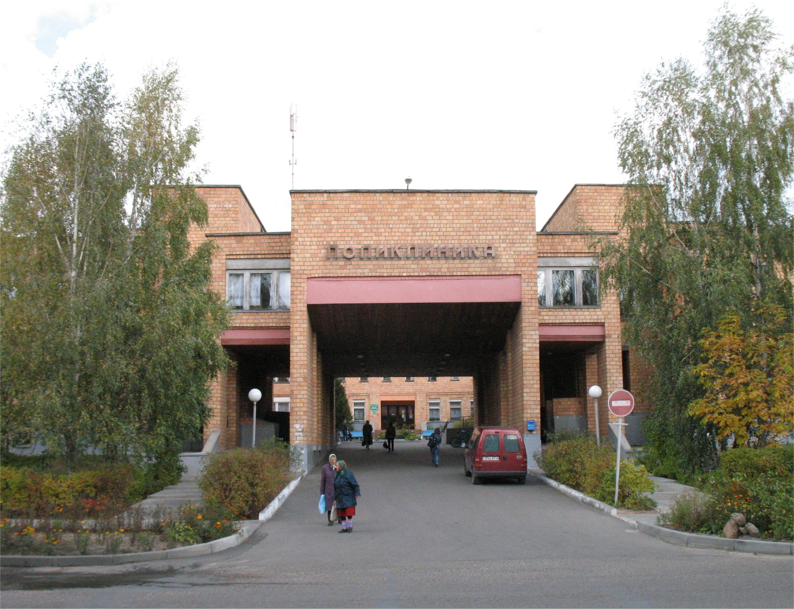 Entrance of the policlinic / health center of Asipovichy (Асiповiчы; Осиповичи) in Mogilev region, Belarus.